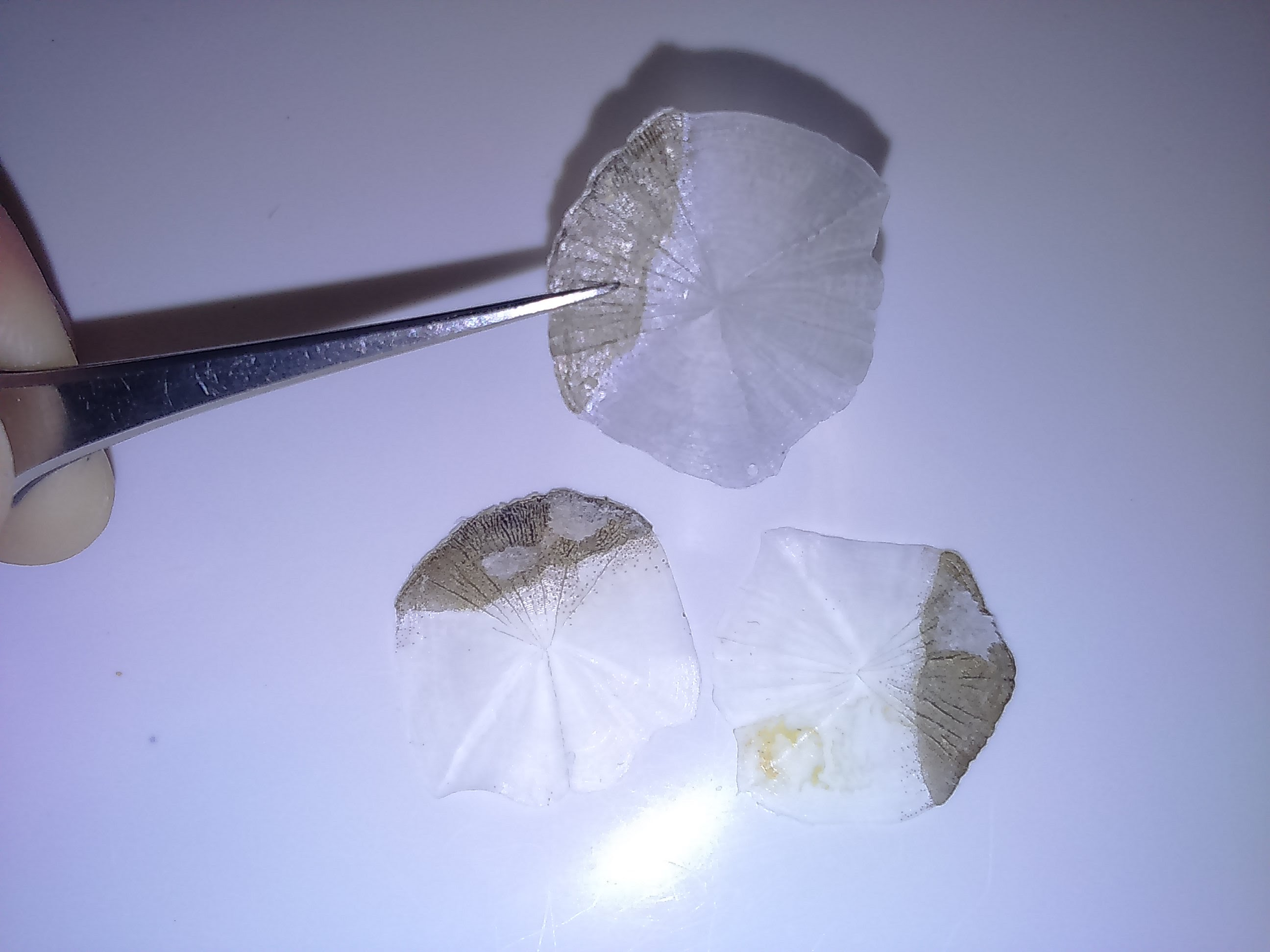 Scales from chub, River Teme